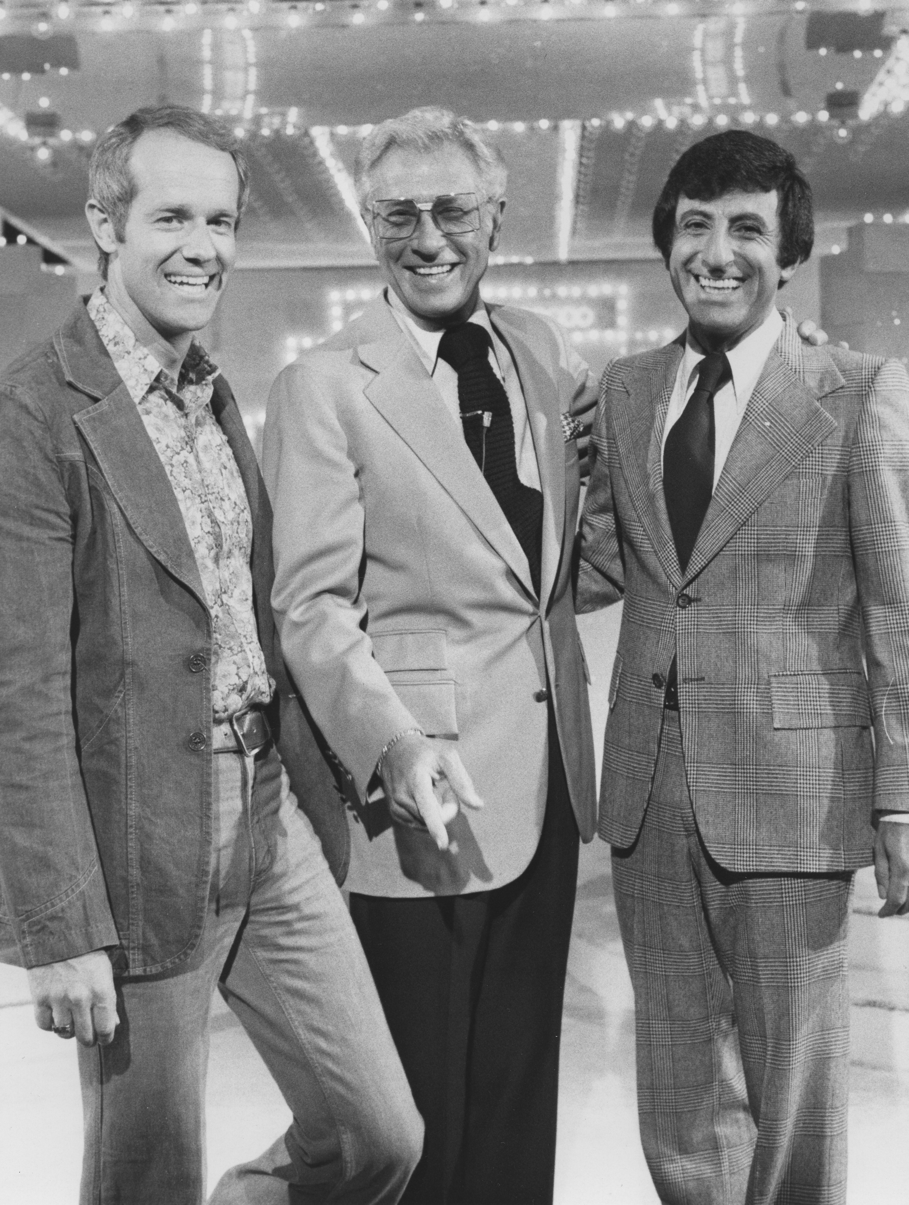 Publicity photo of game show Stumpers. Pictured are (left to right) M*A*S*H star Mike Farrell, game show host Allen Ludden, and another M*A*S*H star Jamie Farr. Celebrities were supposed to appear on the game show on October 18–22, 1976, 10:30am–11am PT / 11:30am–Noon ET. Scanned photo into hard drive. Proprietor of this photo is NBC. Date of release was October 15, 1976. Bought on eBay